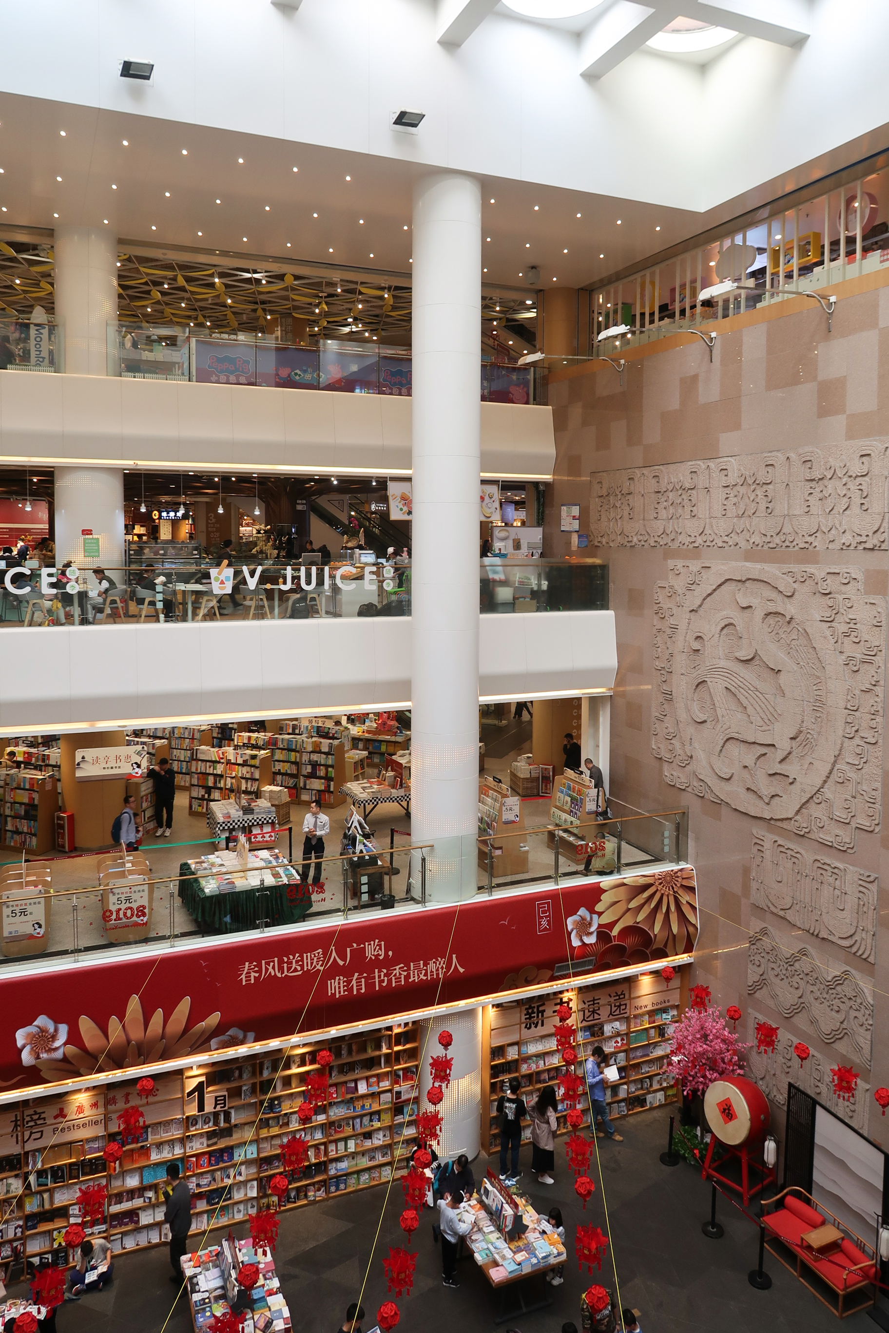 Guangzhou Book Centre Atrium